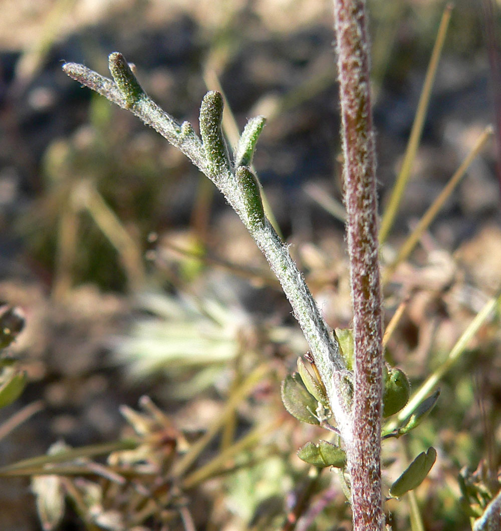 Chaenactis stevioides near Sandy Valley Road east of Columbia Pass, Spring Mountains, southern Nevada (elev. about 1200 m)